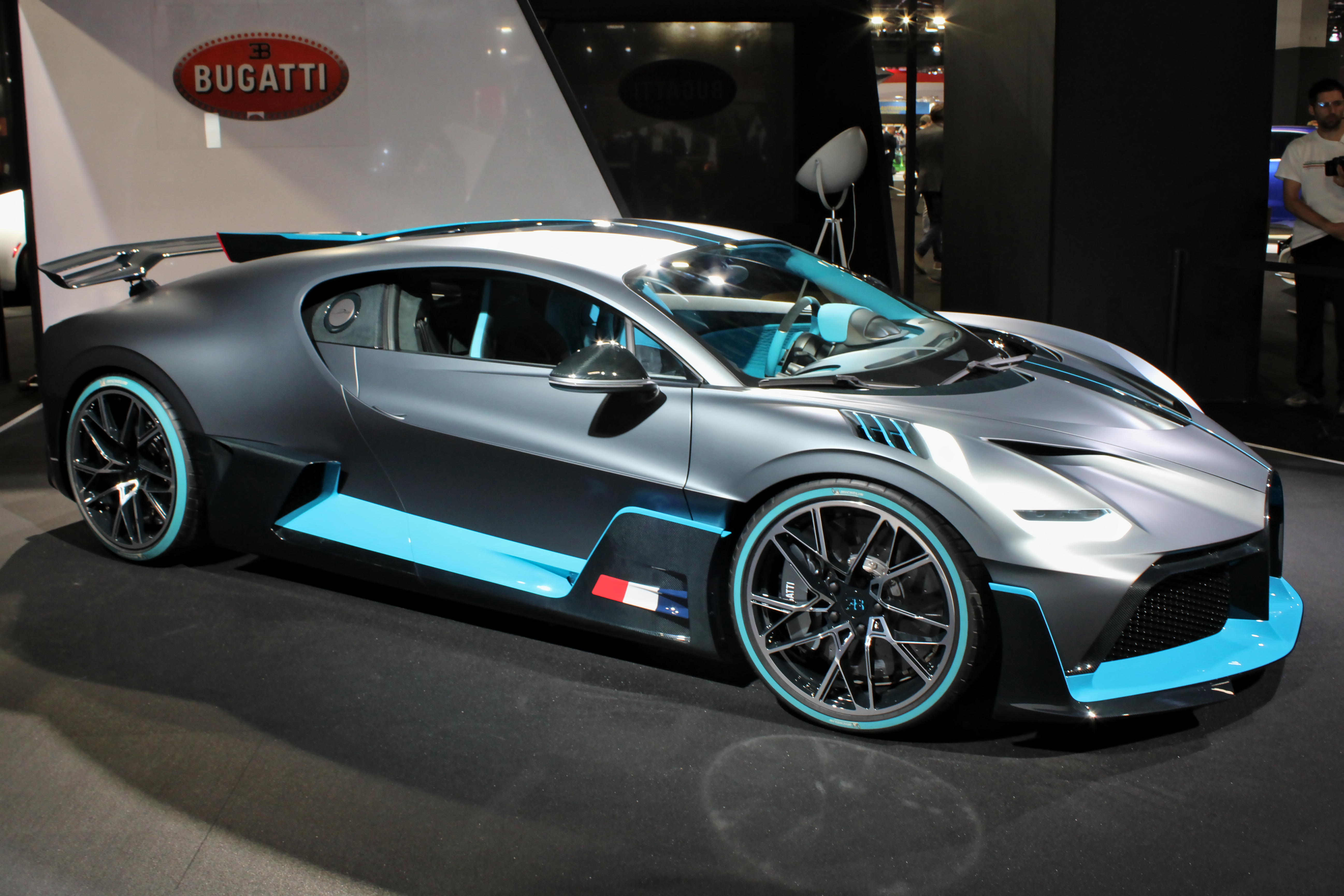 Bugatti Divo at Paris Motor Show 2018